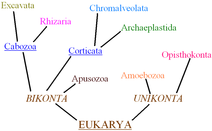 Modern eukaryote taxonomy